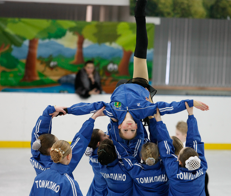 Томилино